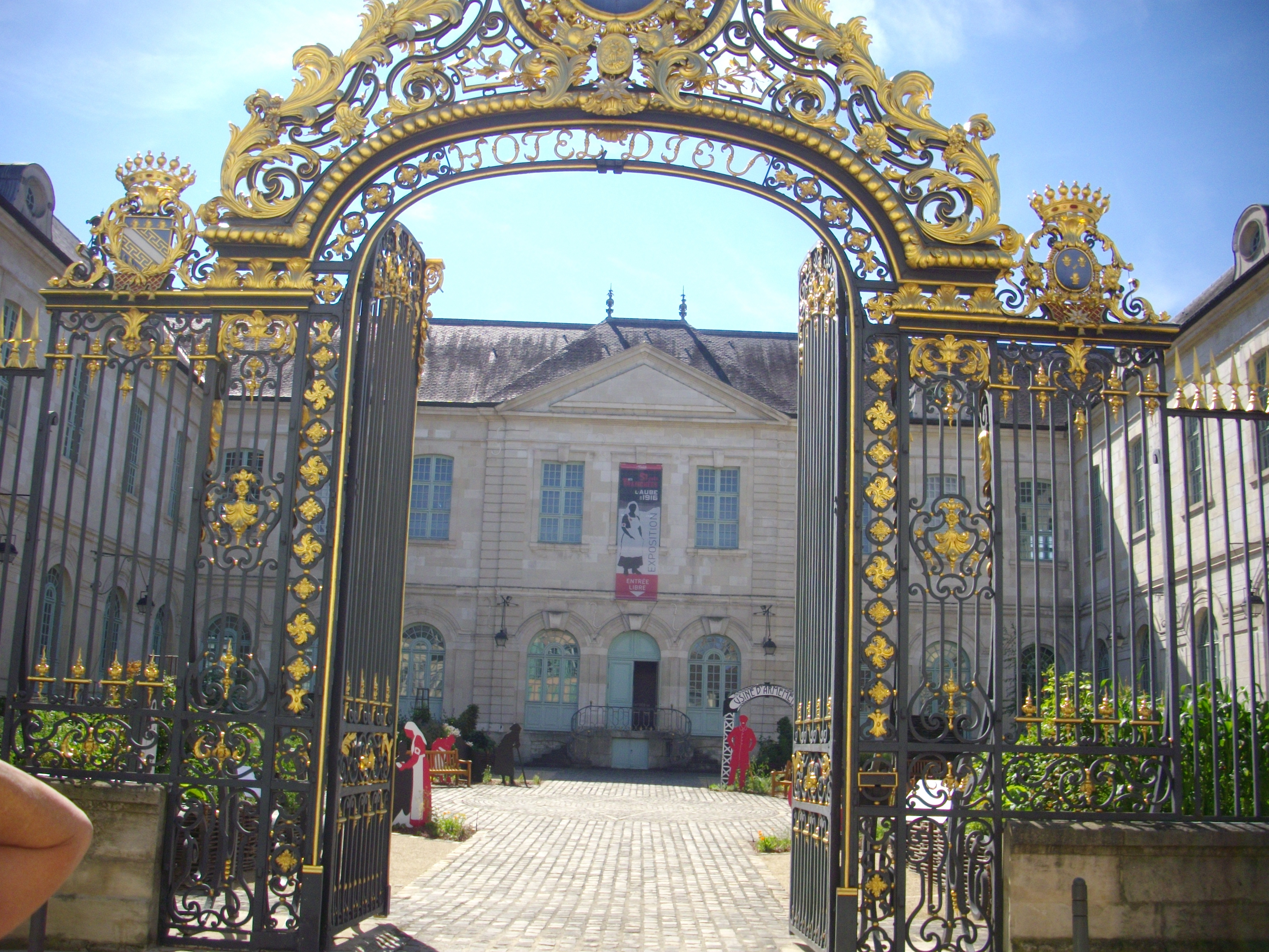 Hôtel-Dieu of Troyes (Aube, France), iron gate and facade on City street